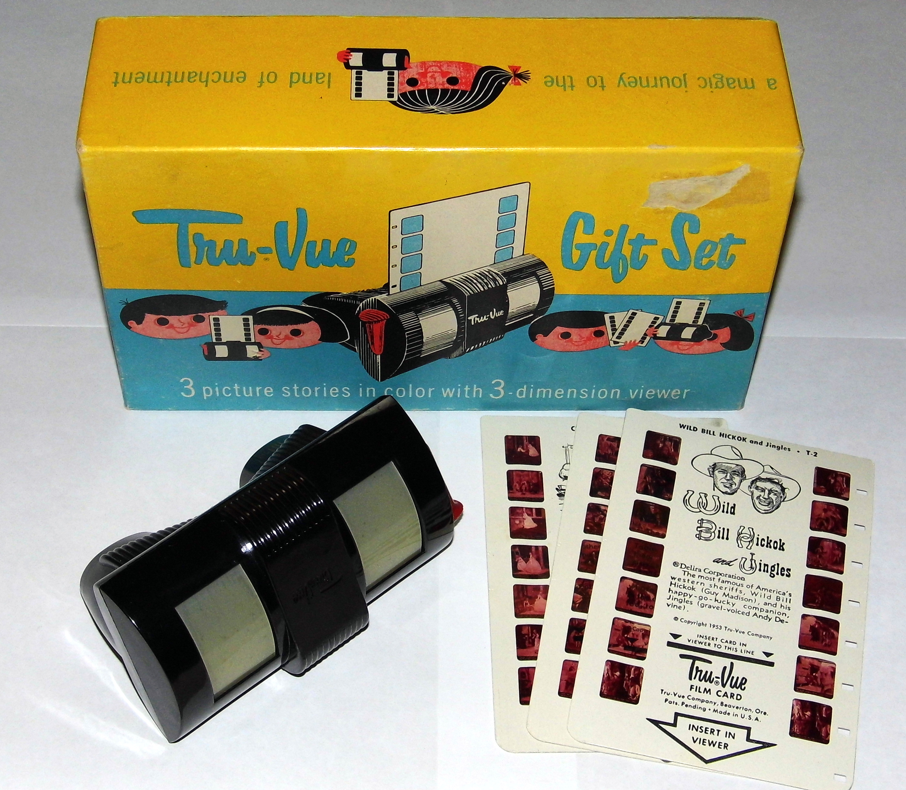 A Tru-Vue "Gift Set", No. 520, made in 1953 by the Tru-Vue Company, of Beaverton, Oregon. Tru-Vue was originally independent but became a subsidiary of Sawyer's in 1951, and the company moved from Illinois to Oregon at that time.